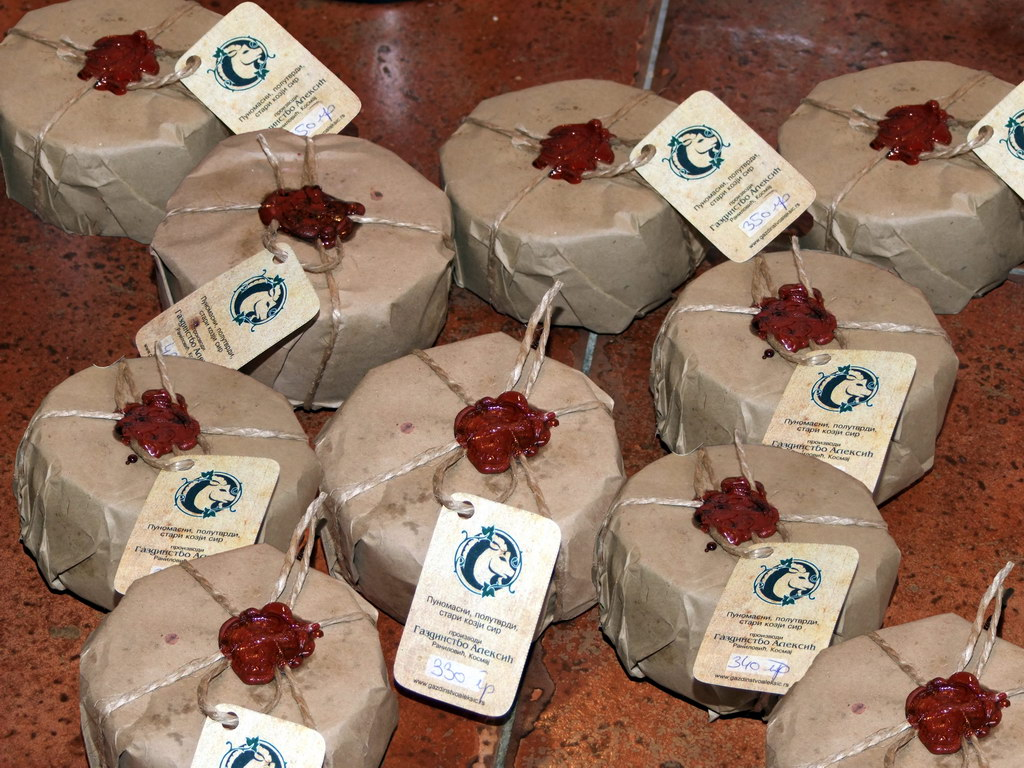 Artisan goat cheese produced on "Gazdinstvo Aleksic" farm from farmstead milk. Ranilović on Kosmaj, Serbia